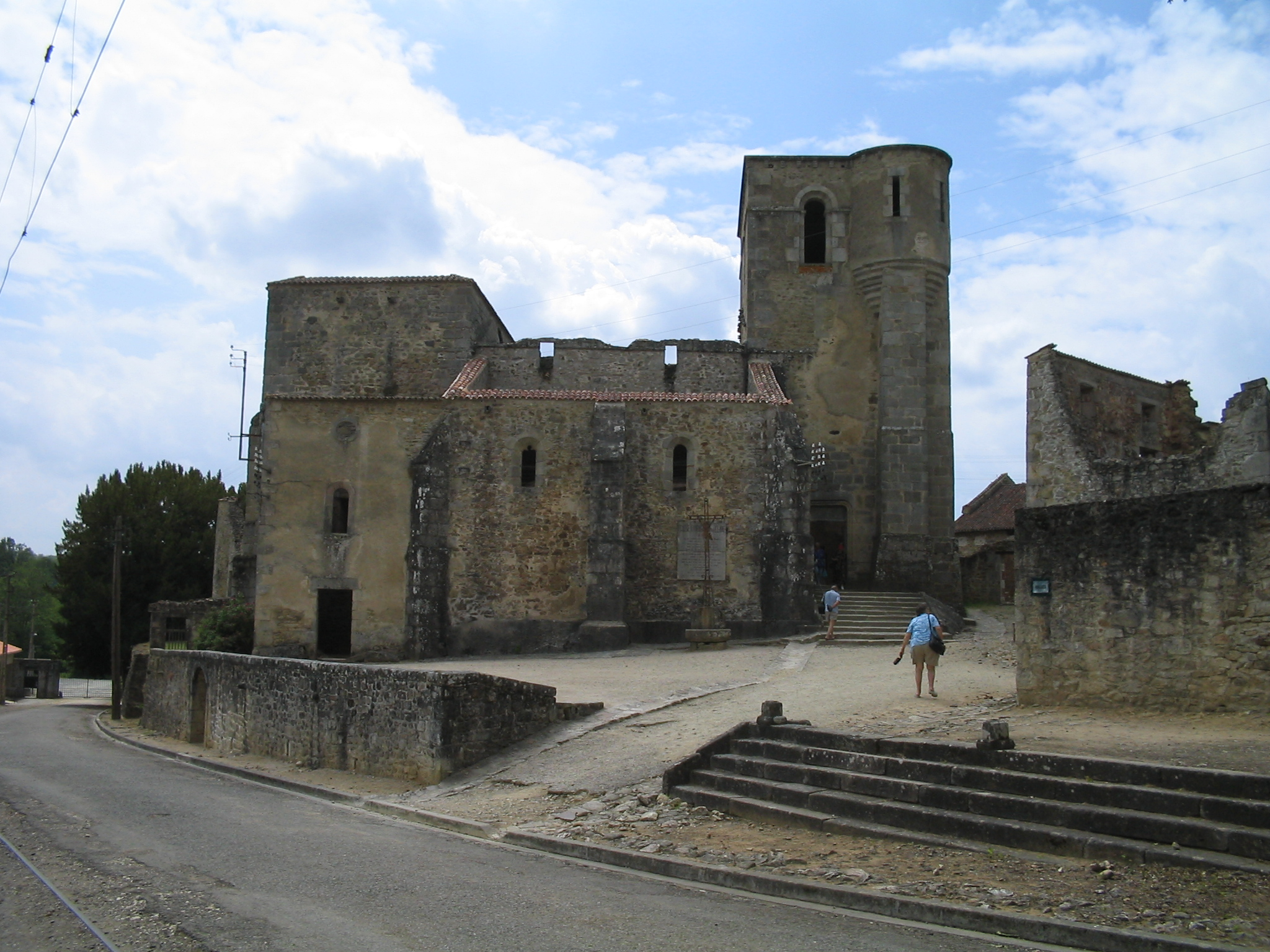 The church in Oradour-sur-Glane. This is the church in which the women and children were burnt to death. This is a photograph which I took during a visit to the French village Oradour-sur-Glane on June 11 2004, exactly 60 years after its destruction by the German army during World War II.